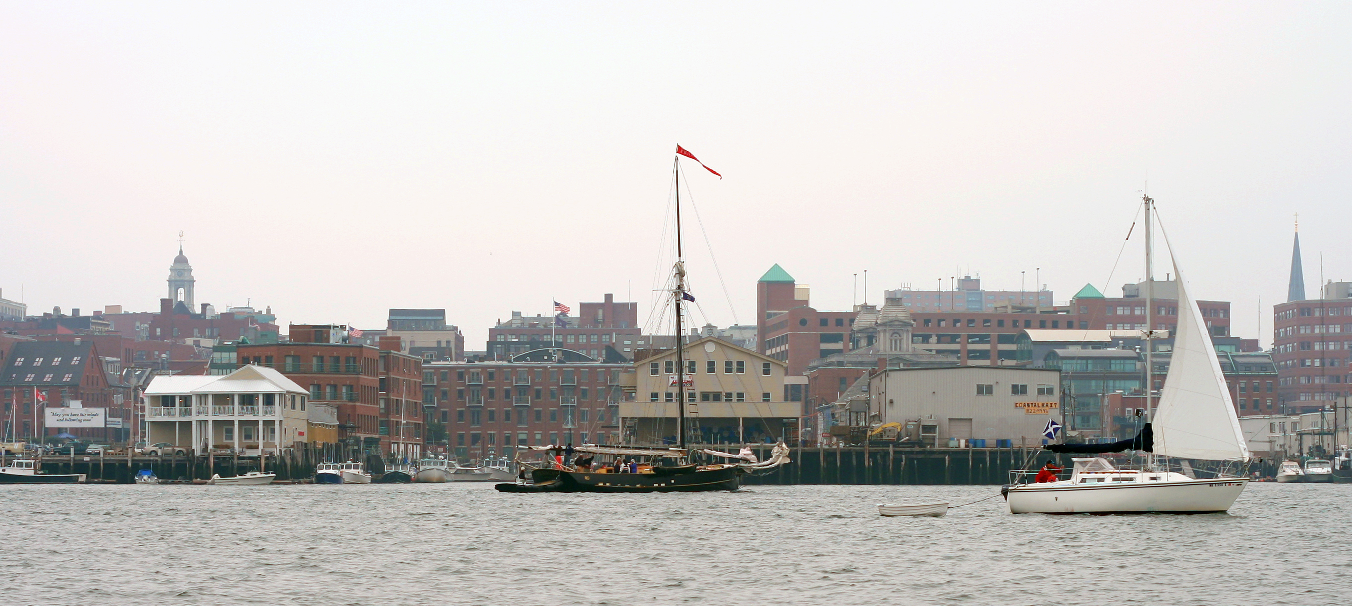 Buildings along Commercial Street visible from the water.